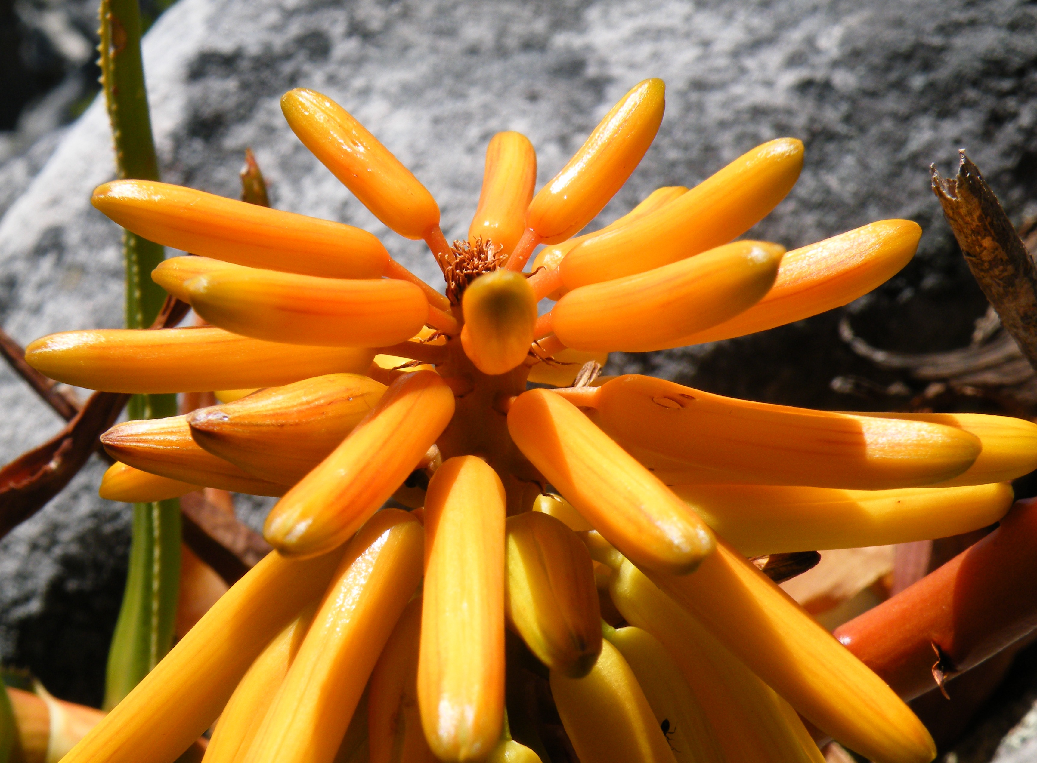 Aloe commixta. Table Mountain. Detail of inflorescence.